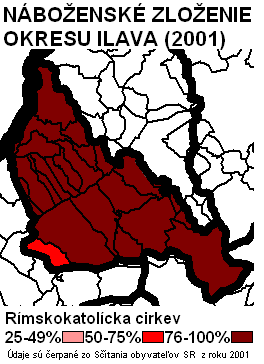 Religious structure in Ilava district in 2001.